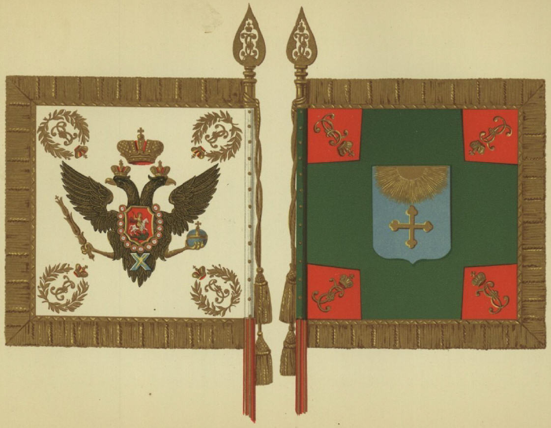 Illustration from the book "The History of the Okhtyrsky Regiment", Volume II (Authors Potto and Odintsov). 1905 St. Petersburg. Russian Imperial Army standard of the Okhtyrsky's Light Сavalry regiment (1782).